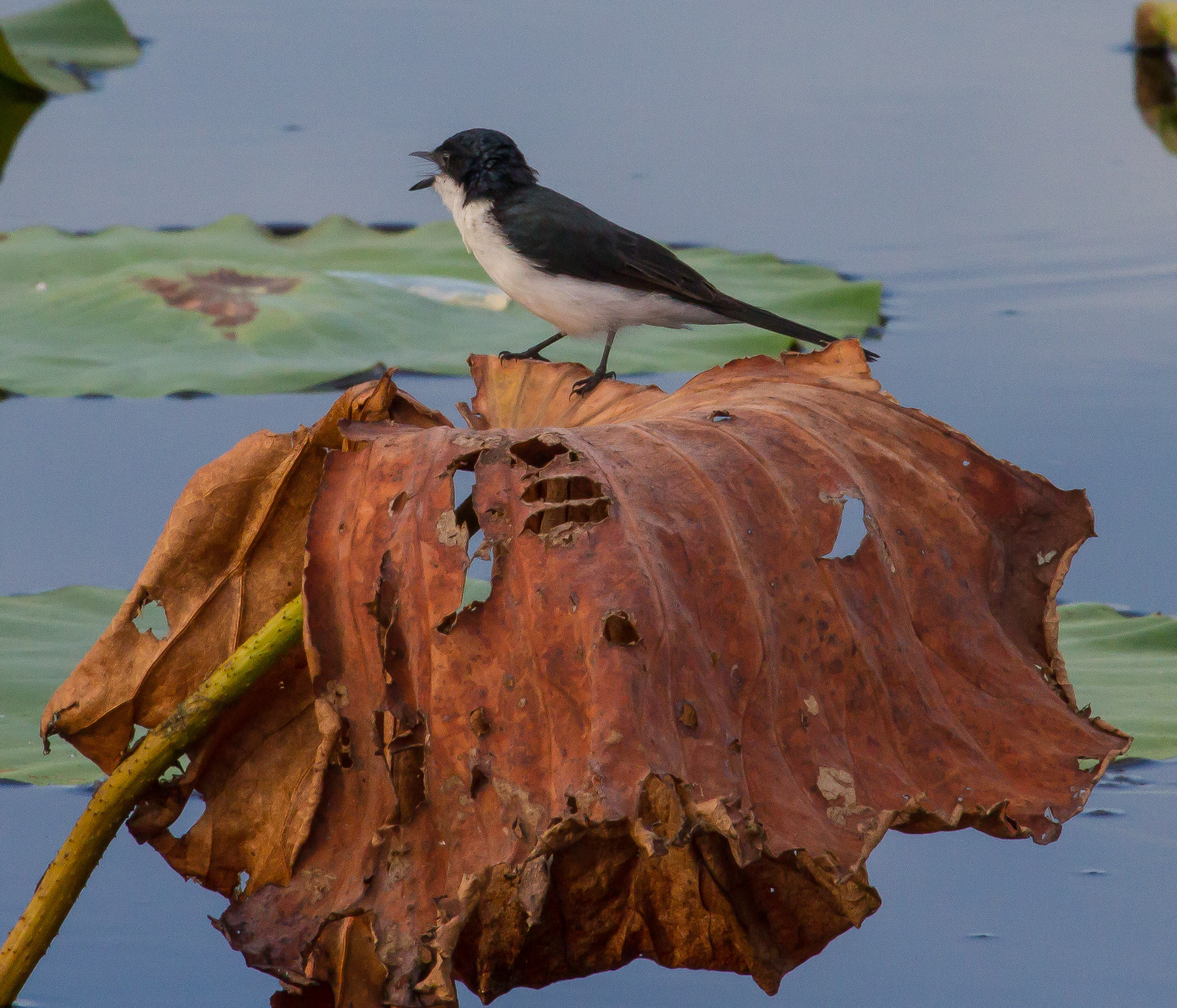 Paperbark Flycatcher - Fogg Dam - Middle Point, Northern Territory - Australia